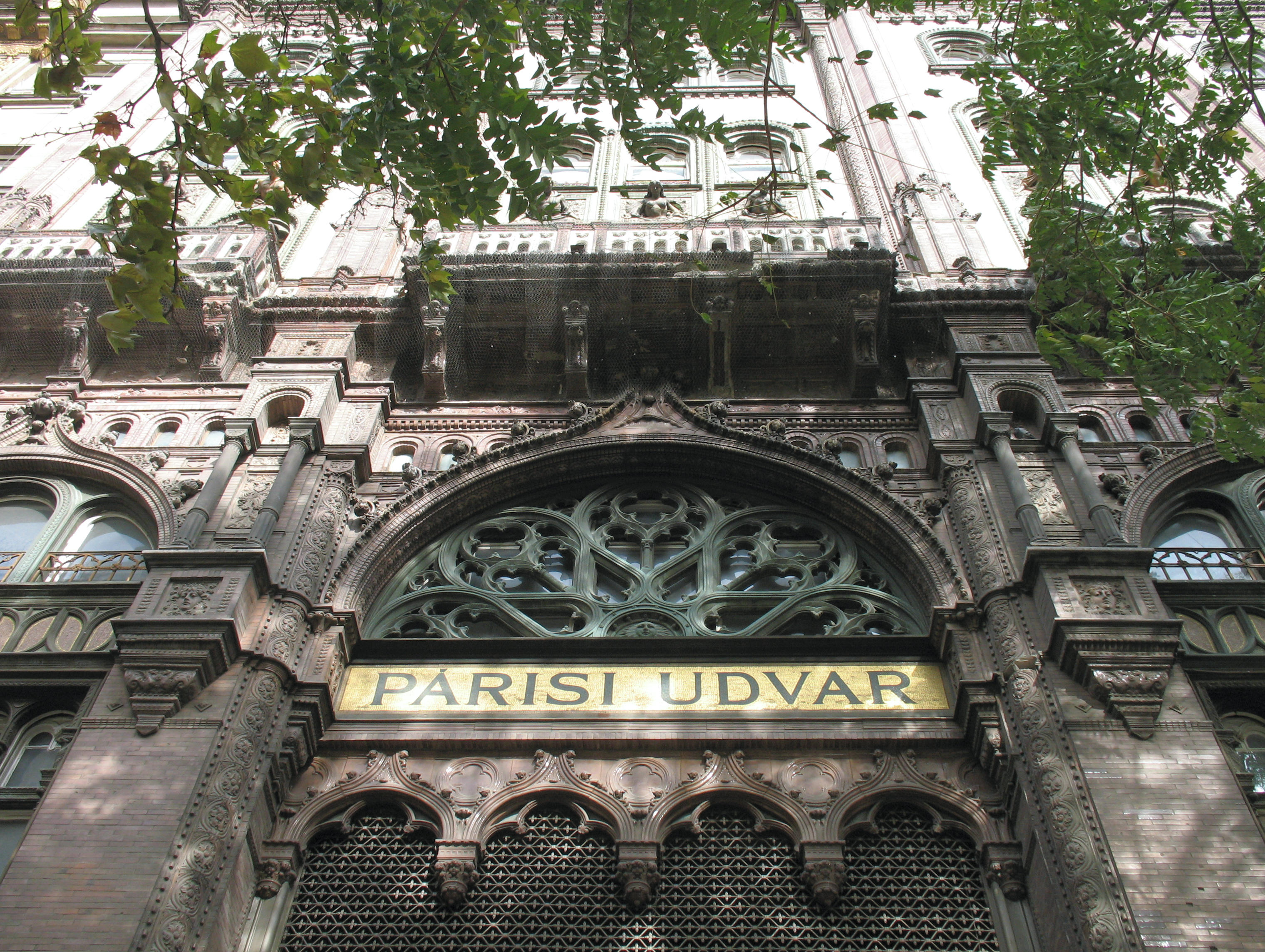 Portal of Párizsi udvar (Paris Court) in Budapest, Hungary